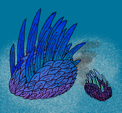 A reconstruction (drawing) of the appearance of Wiwaxia corrugata, a rather unusual invertebrate form the lower Cambrian